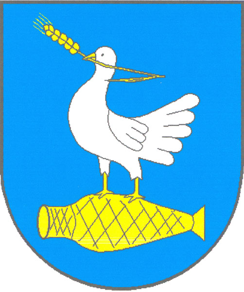 Municipal coat of arms of Holubice village, Vyškov District, Czech Republic.